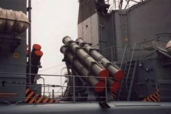 Mk 141 Harpoon Missile Launcher aboard the German frigate Bremen. Picture take from navysite.de, an unofficial United States Navy site. The main page contains the following notice: "Please note that all photos on this website are - unless otherwise stated - official US Navy photos. This does not include the pictures of the cruise patches and scans of cruise books."